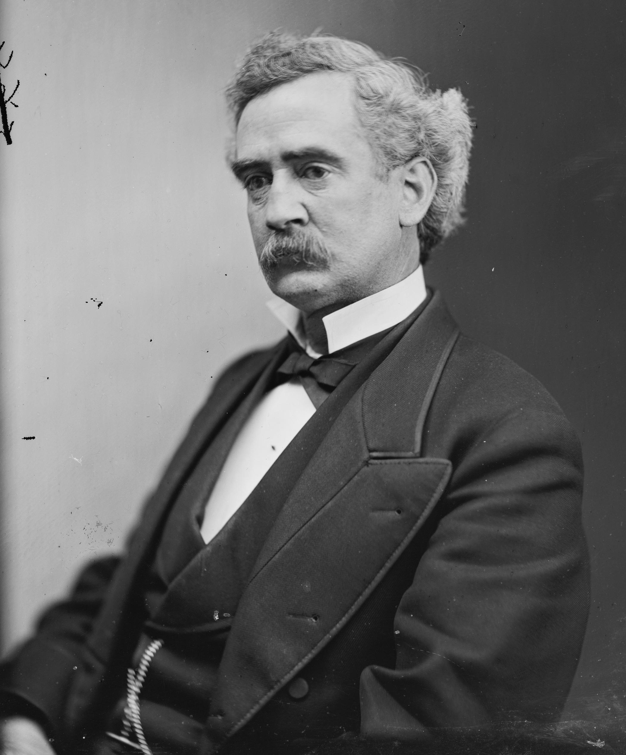 Harry White (Pennsylvania). Library of Congress description: "White, Hon. Harry of Pa. Maj in 67th Pa. Vol. Inf. Brig Gen March 2, 1865".